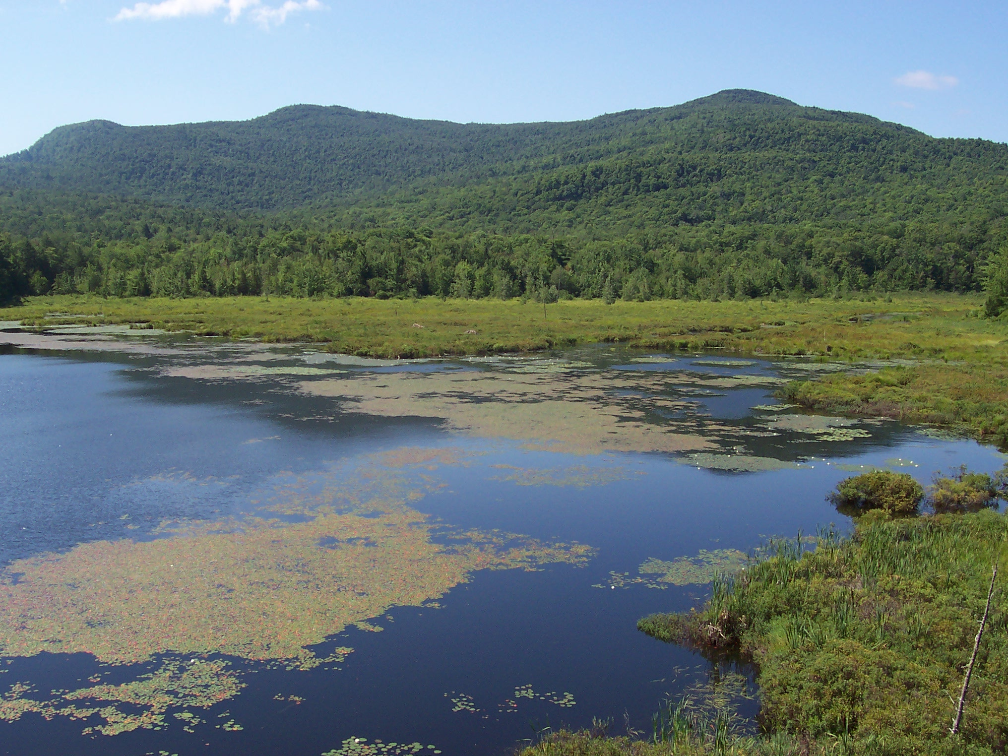 Mont Orford National Park, Quebec, Canada - July 2007 - Fer-de-lance pond